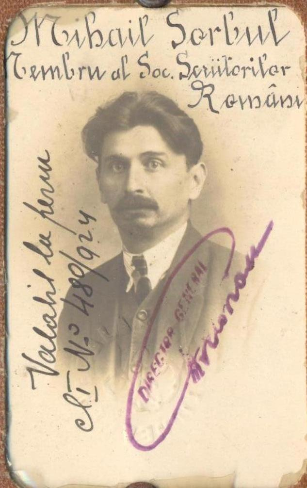 Picture of Mihail Sorbul taken from his railway permit